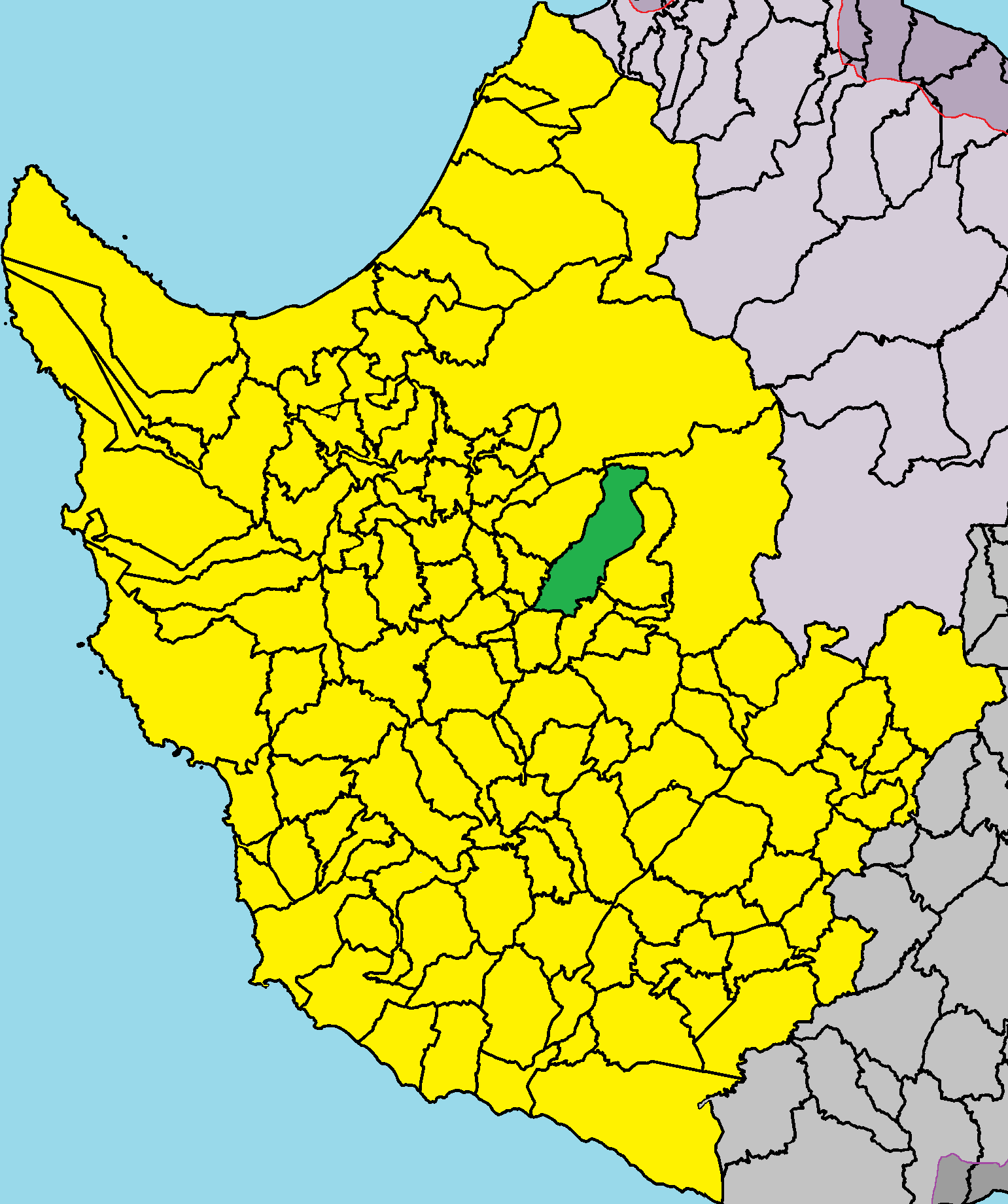 Kritou Marottou in Paphos District.